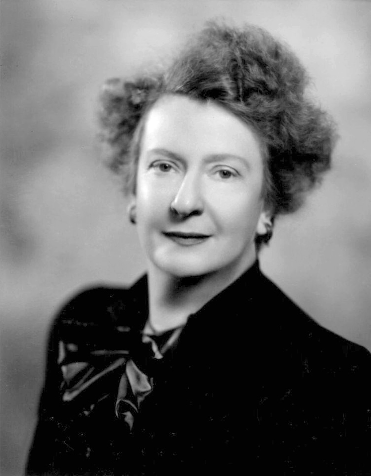 Photo of actress Ruth McDevitt.